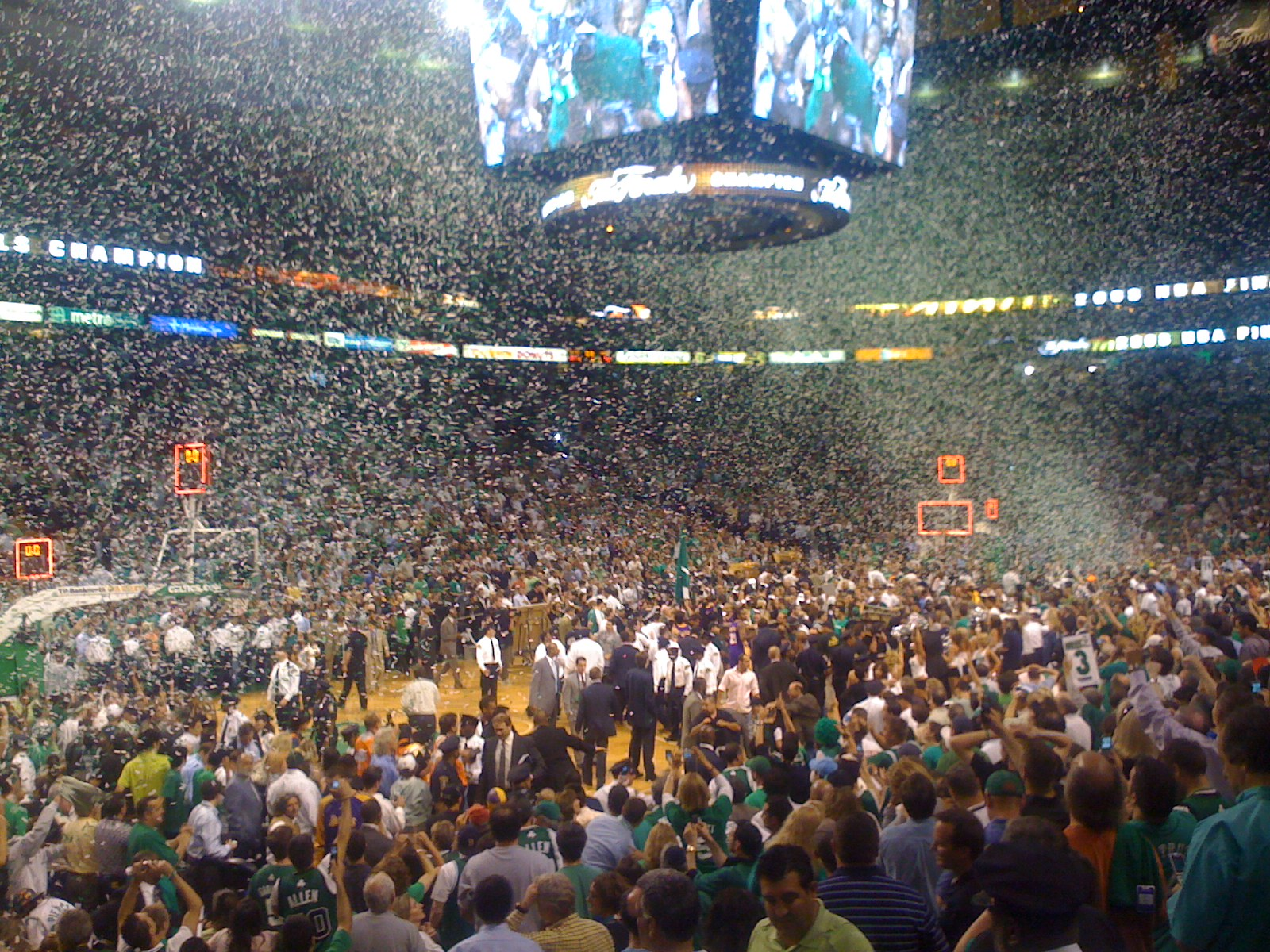 Photograph of the celebration following the Celtics' victory in Game 6 of the 2008 NBA Finals